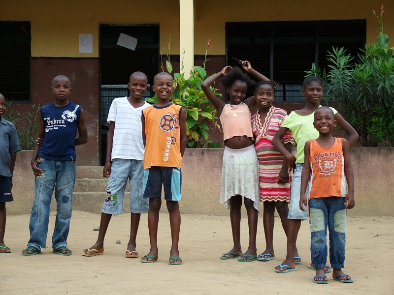 Orphans in la providence